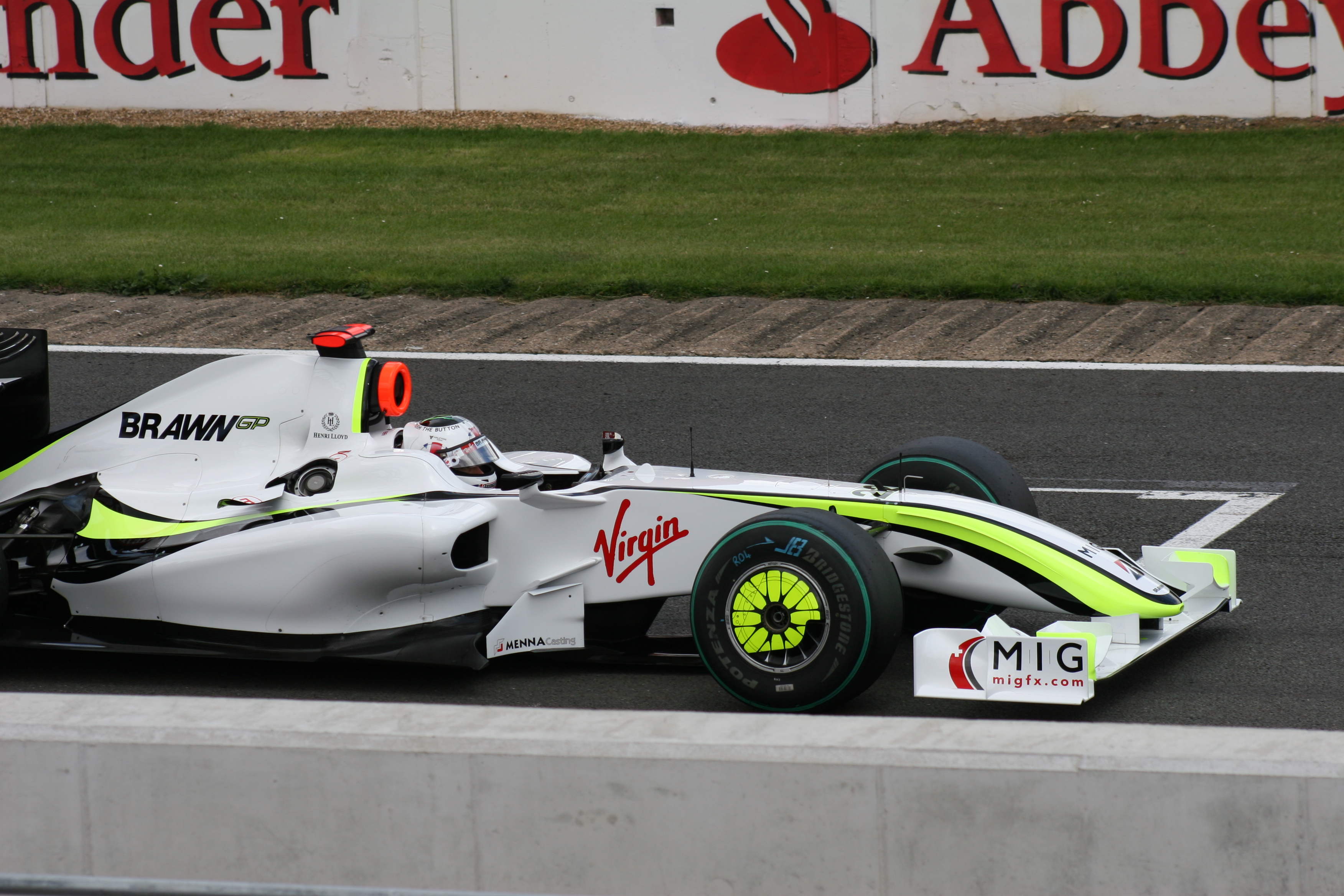 Button starting warm up lap